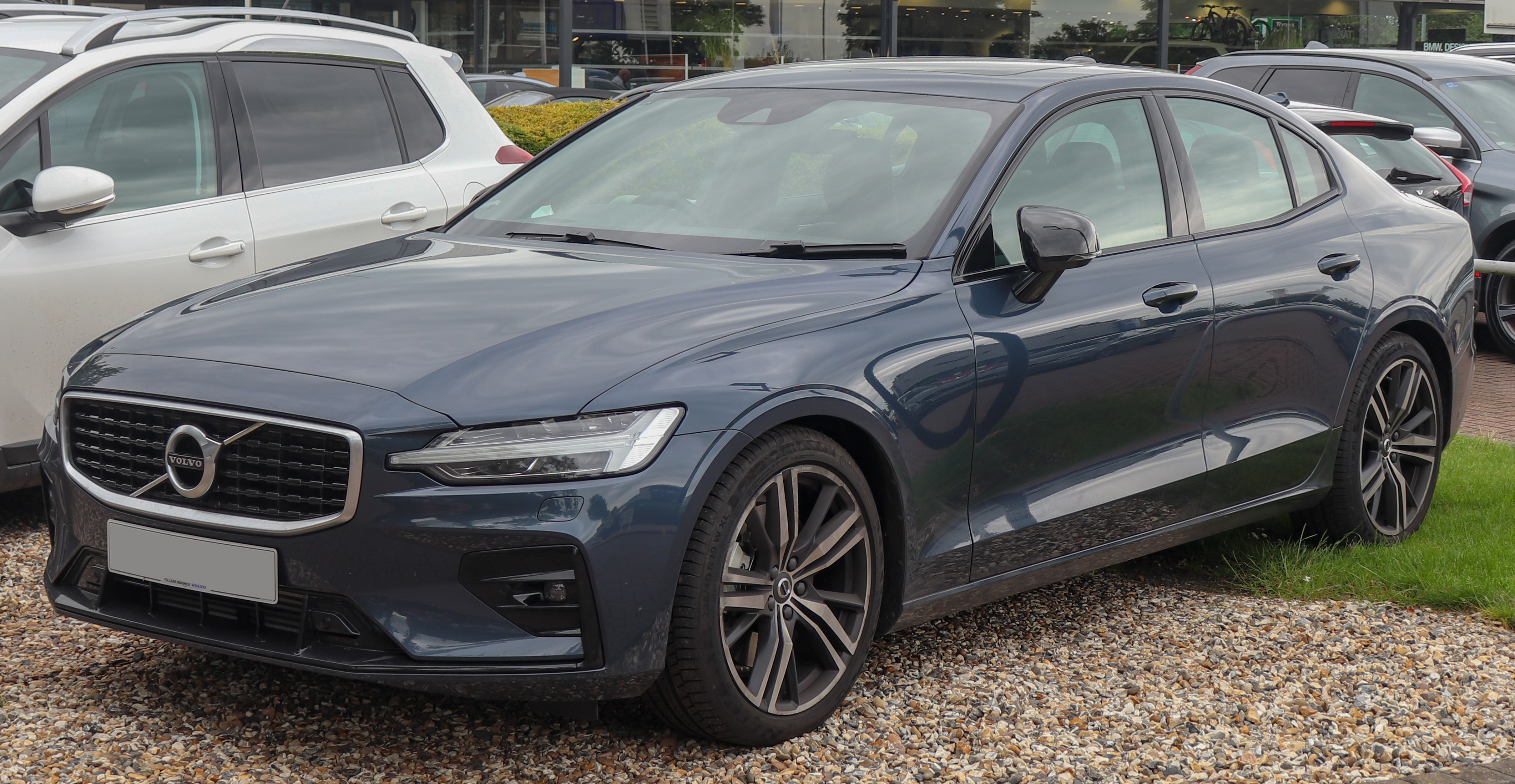 2019 Volvo S60 R-Design Edition T5 Automatic 2.0 Taken in Leamington Spa